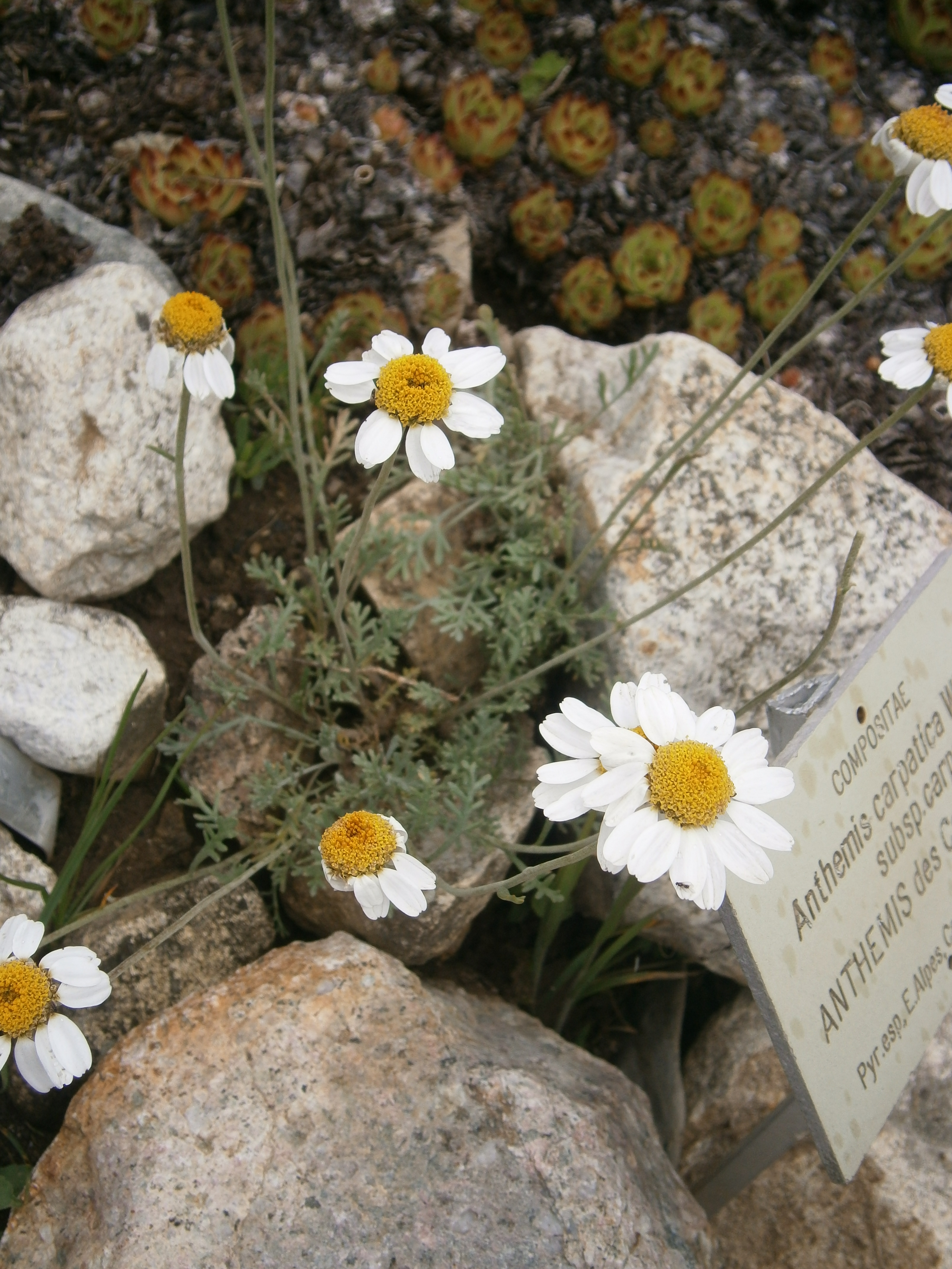 Anthemis cretica subsp. carpatica in the Jardin Botanique Alpin du Lautaret